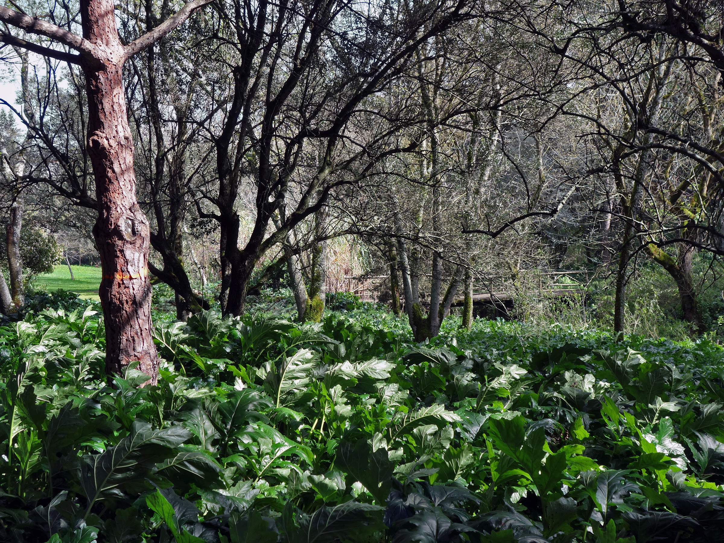 Parque Botânico do Monteiro-Mor, woodland at the water course